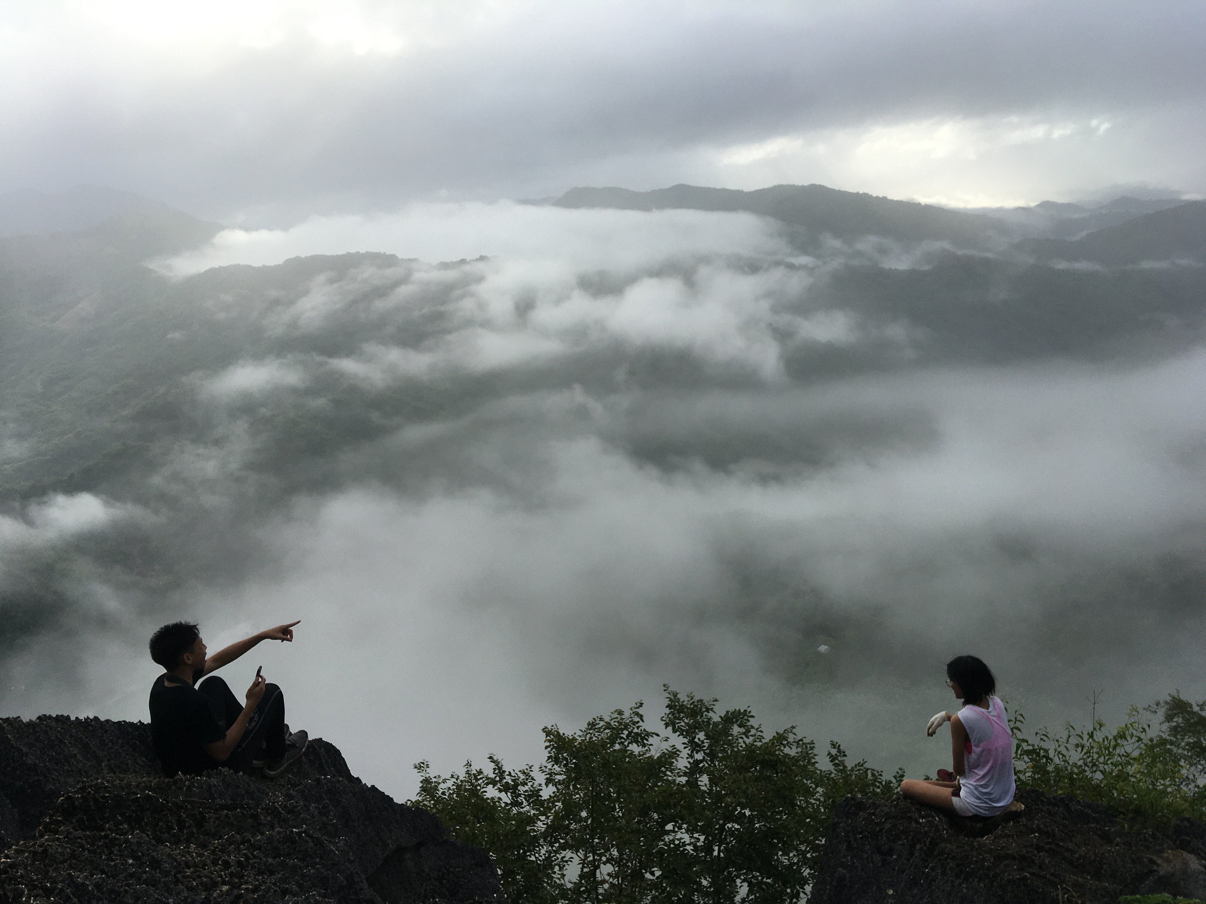 This photo shows the main tourist attraction in Mt. Binacayan, and it is called the sea of clouds.